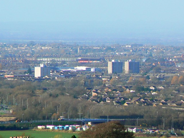 A view north-west of the Ridgeway, Liddington, Swindon. The viewpoint is on the Ridgeway at SU215805. Starting at the bottom we can see the roadworks at Commonhead at SU193824 including the work's temporary depot. Beyond that are the roofs of houses in Liden, Swindon at SU188828. The tower at left of centre is in Cavendish Square, Swindon at SU173838. To the right of Cavendish Square, (but back a bit) is New College, Queens Drive, Swindon at SU168843. Visible to the right of New College are tower blocks in Park North, Swindon at SU171842. Above New College is Swindon Town Football Club at SU159851. 118816 The red seating in the north stand should be distinguishable. Lastly, above left-hand end of STFC the square tower of St Mary's Church, Rodbourne can be seen at SU140867. 309183 The 'as the crow flies' distance from the viewpoint to St Mary's is 9.7 kilometres.